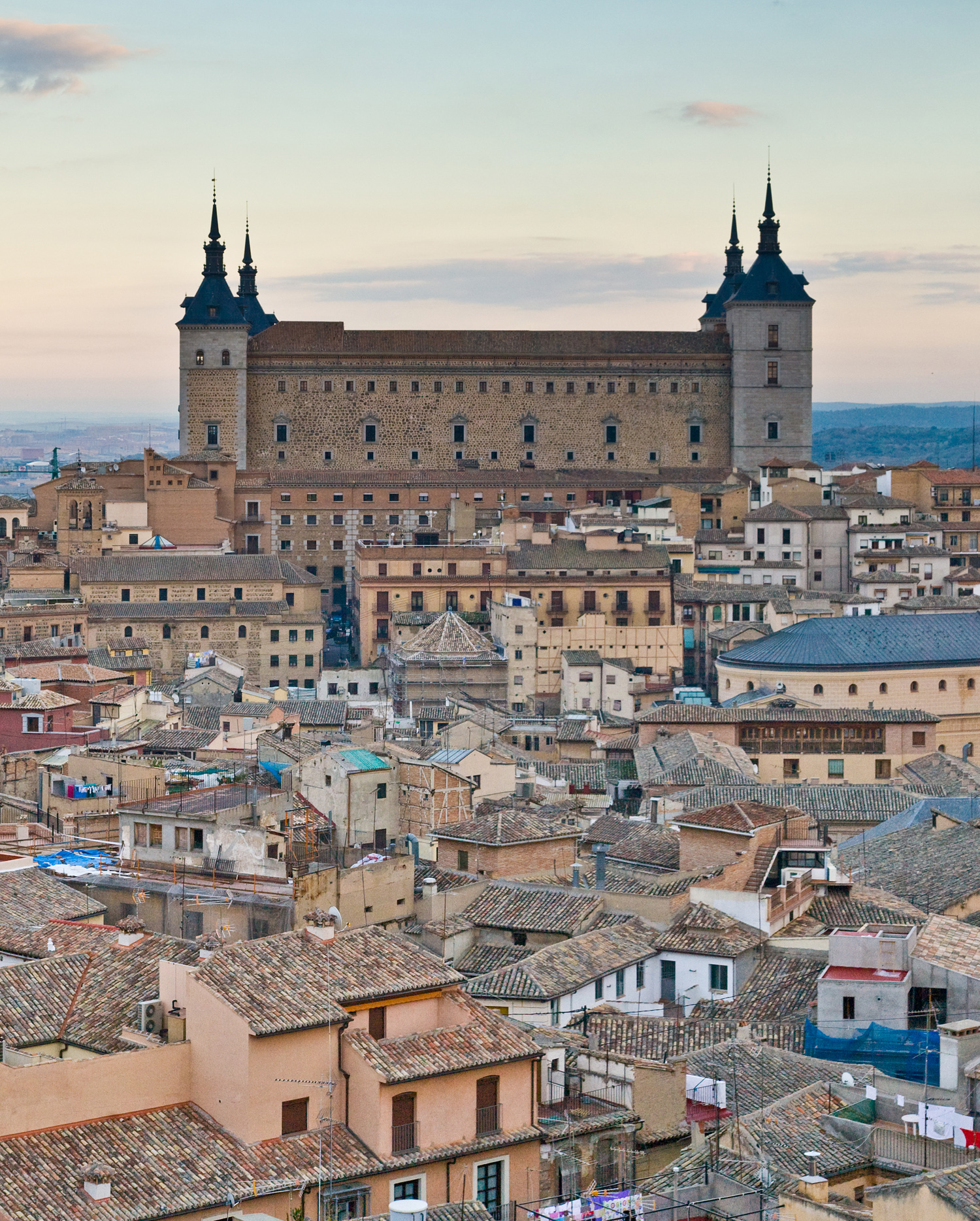 The Alcázar of Toledo, Spain. This is a six segment mosaic panoramic image taken by myself with a Canon 5D and 70-200mm f/2.8L lens.